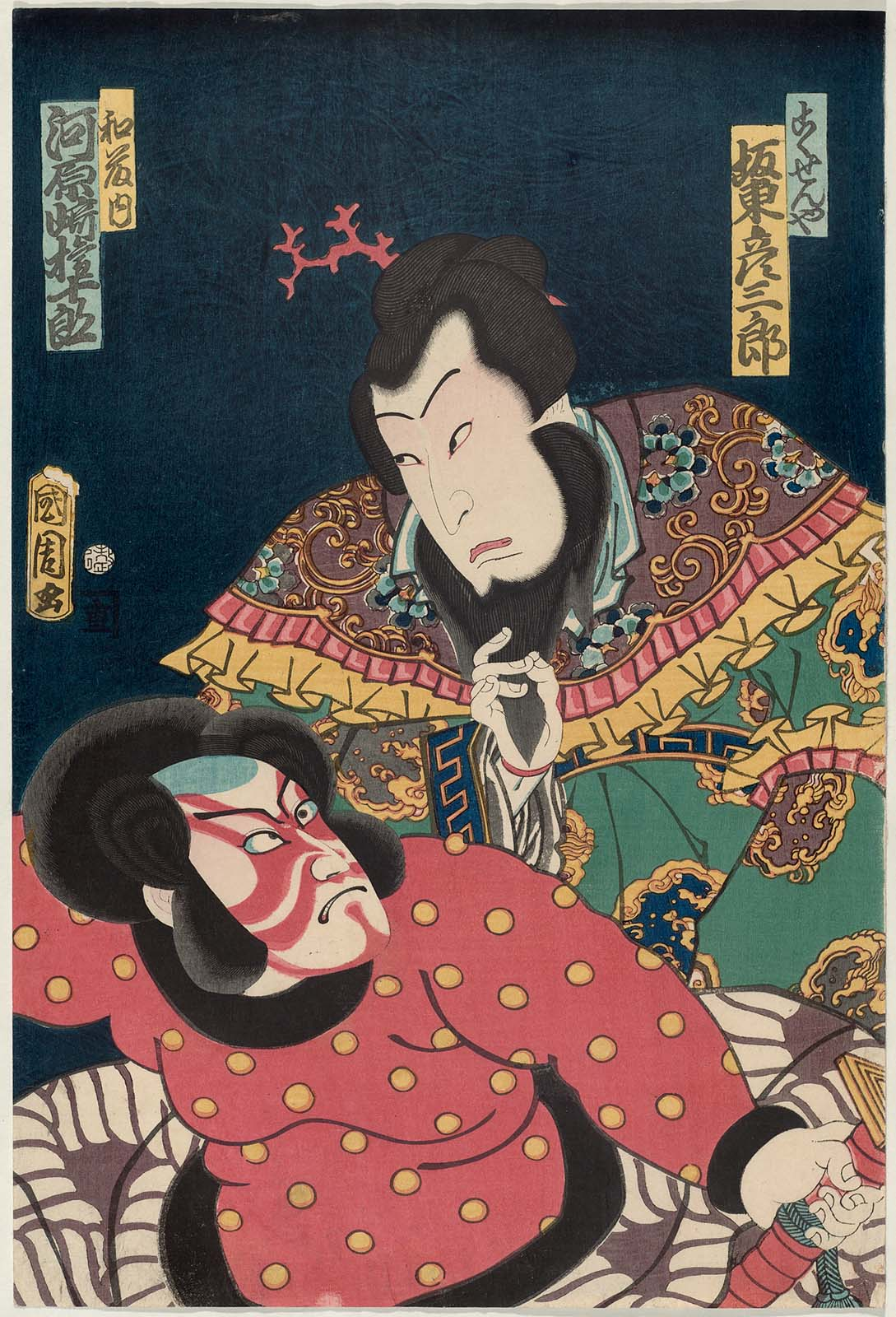 Kabuki Scene from Chikamatsu Monzaemon's "The Battles of Coxinga" (Kokusen'ya Kassen)